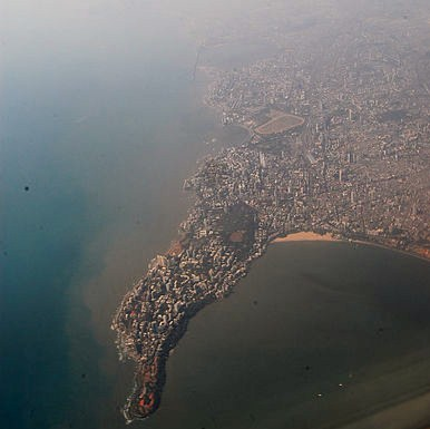 Over Mumbai - The tip of Mumbai , Malabar hill